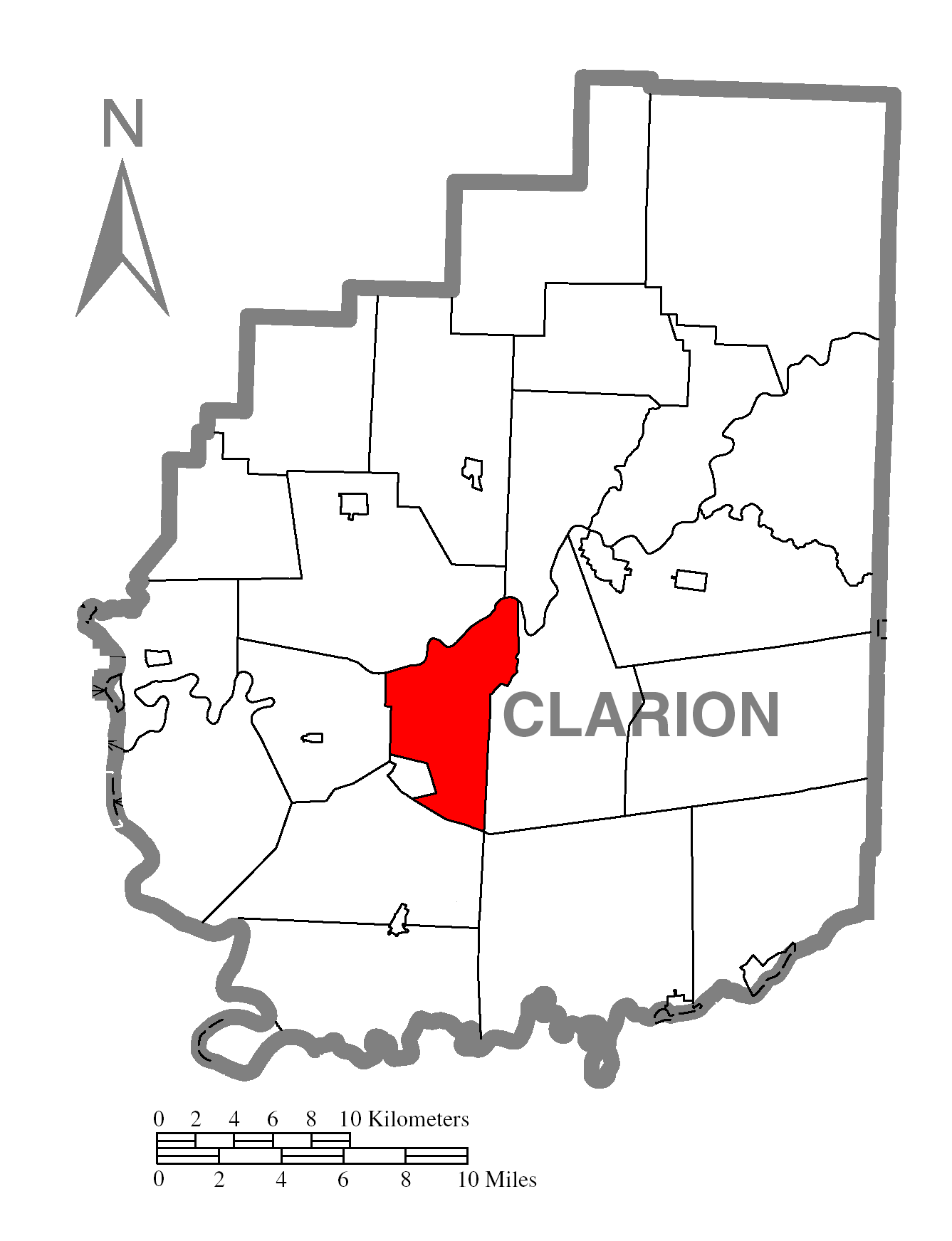 A map of Clarion County showing Piney Township, Pennsylvania (alternate) highlighted on the map.